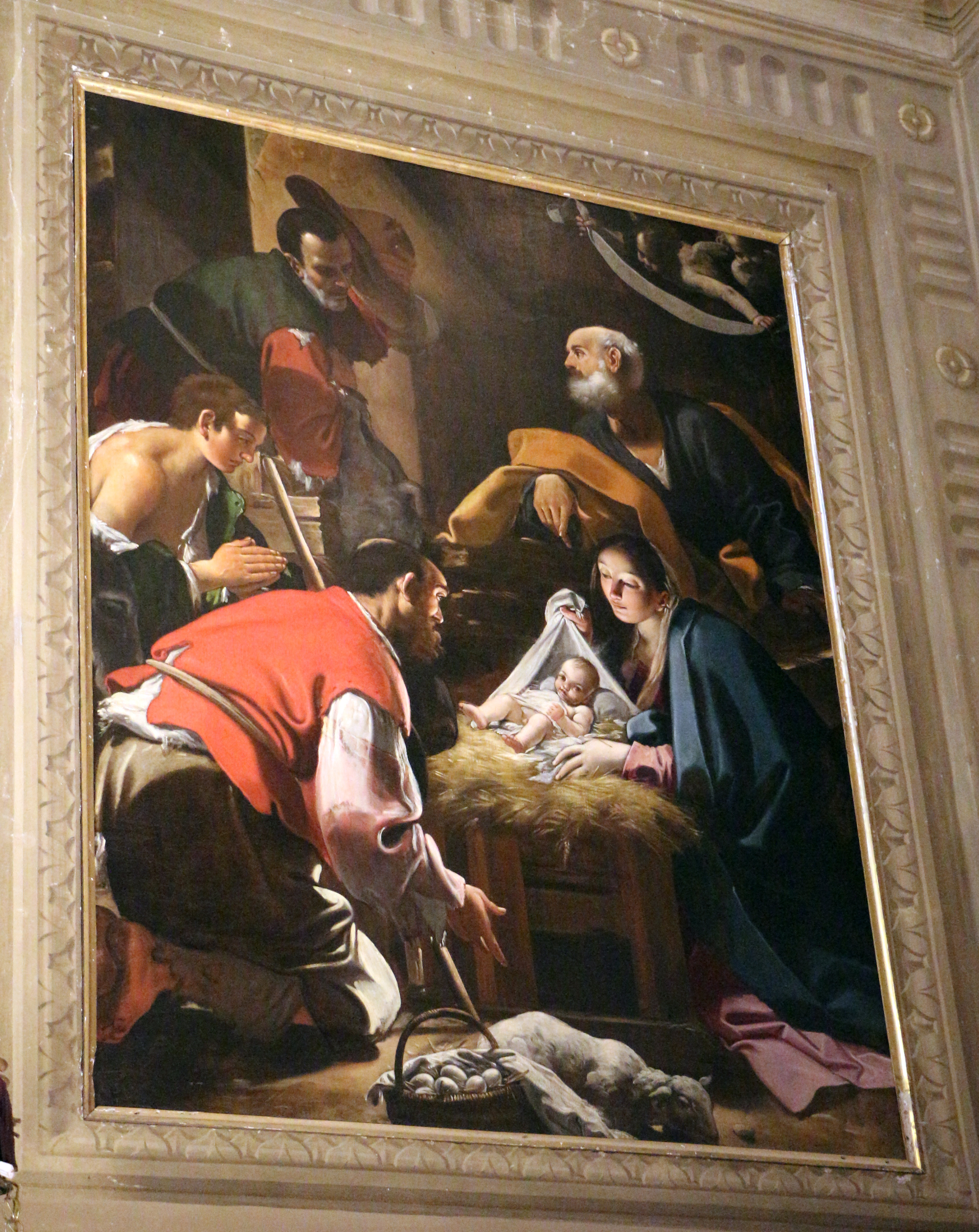 San Paolo Decollato (Bologna)